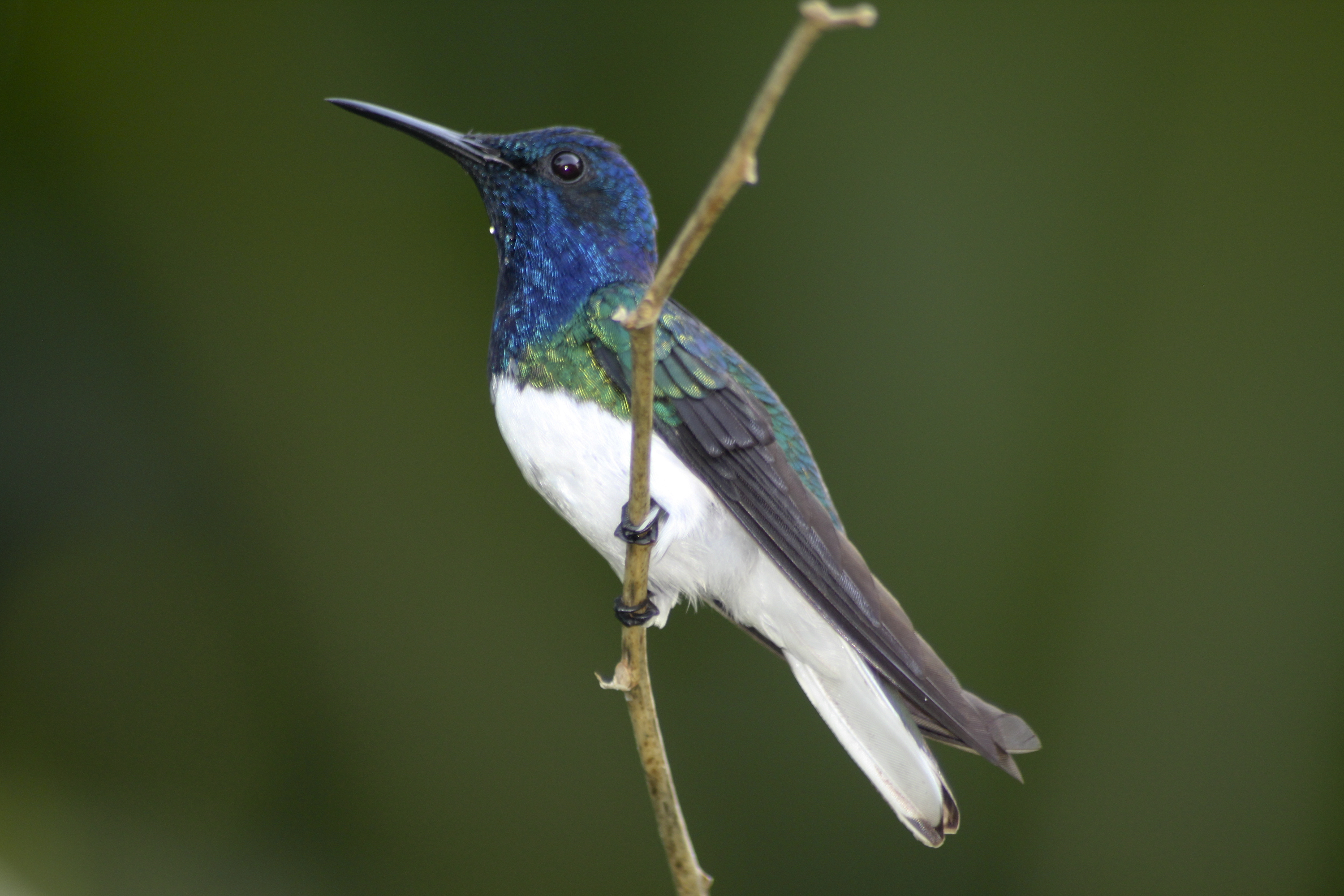 White-necked Jacobin in Panama.